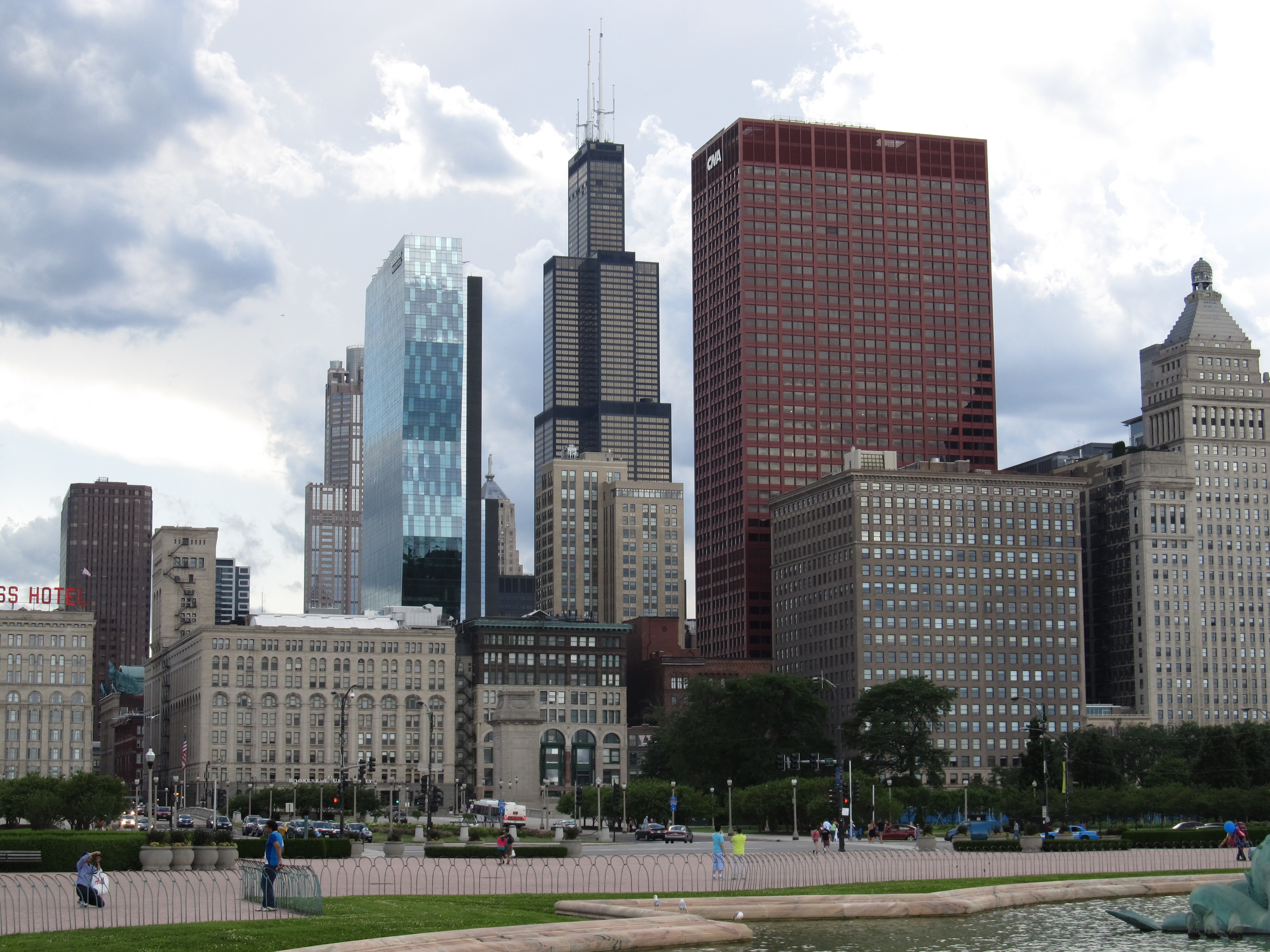 Chicago, a city in the U.S. state of Illinois, is the third most populous city in the United States and the most populous city in the American Midwest, with approximately 2.7 million residents. Its metropolitan area (also called "Chicagoland"), which extends into Indiana and Wisconsin, is the third-largest in the United States, after those of New York City and Los Angeles, with an estimated 9.5 million people. Chicago is the county seat of Cook County, though a small portion of the city limits also extends into DuPage County. Chicago was incorporated as a city in 1837, near a portage between the Great Lakes and the Mississippi River watershed. Today, Chicago is listed as an alpha+ global city by the Globalization and World Cities Research Network, and ranks seventh in the world in the 2012 Global Cities Index. The city is an international hub for finance, commerce, industry, telecommunications, and transportation, with O'Hare International Airport being the second-busiest airport in the world in terms of traffic movements. In 2012, Chicago hosted 46.2 million international and domestic visitors. Among metropolitan areas, Chicago has the fourth-largest gross domestic product (GDP) in the world, just behind Tokyo, New York City, and Los Angeles, and ranking ahead of London and Paris. Chicago is one of the most important Worldwide Centers of Commerce and trade. Chicago's notability has found expression in numerous forms of popular culture, including novels, plays, films, and songs. The city has many nicknames, which reflect the impressions and opinions about historical and contemporary Chicago. The best-known include "Windy City" and "Second City."